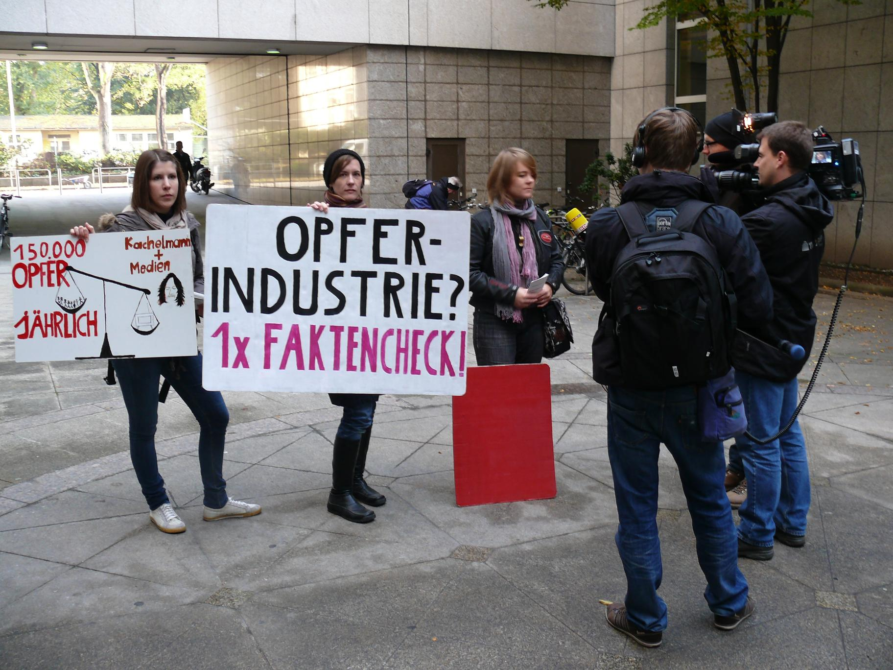 Women Protesters against german Weathermen Jörg Kachelmann at Court Frankfurt/Main. Poster: "Opferindustrie - 1x Faktencheck"